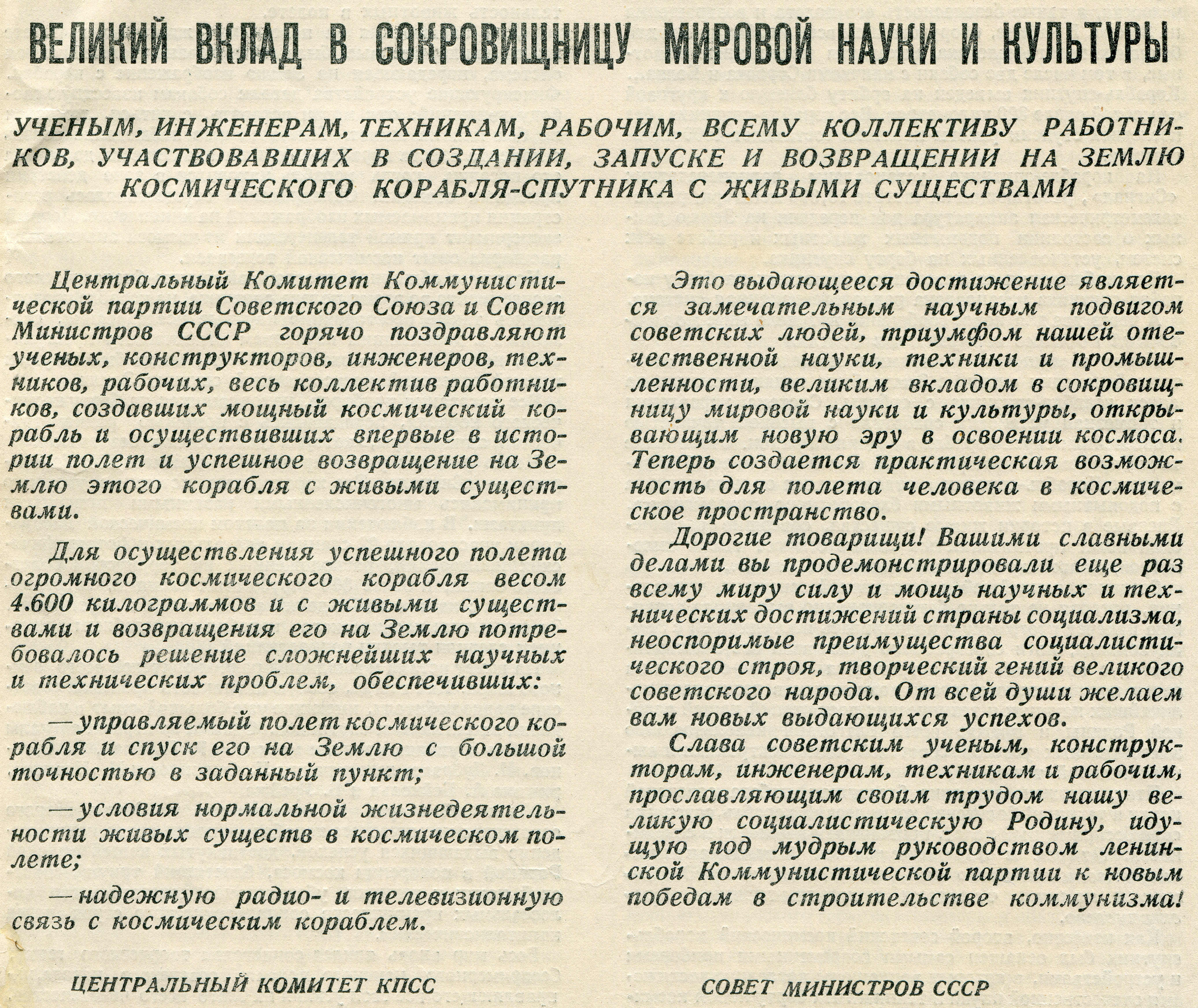 Message from the Council of Ministers of the USSR. Space flight of dogs Belka and Strelka